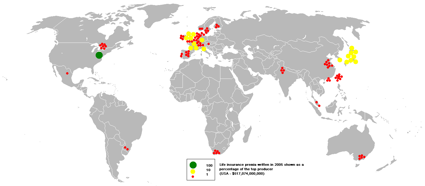 This bubble map shows the global distribution of life insurance premia written in 2005 as a percentage of the top producer (USA - $517,074,000,000). This map is consistent with incomplete set of data too as long as the top producer is known. It resolves the accessibility issues faced by colour-coded maps that may not be properly rendered in old computer screens. Data was extracted on 3rd June 2007. Based on Image:BlankMap-World.png Data source